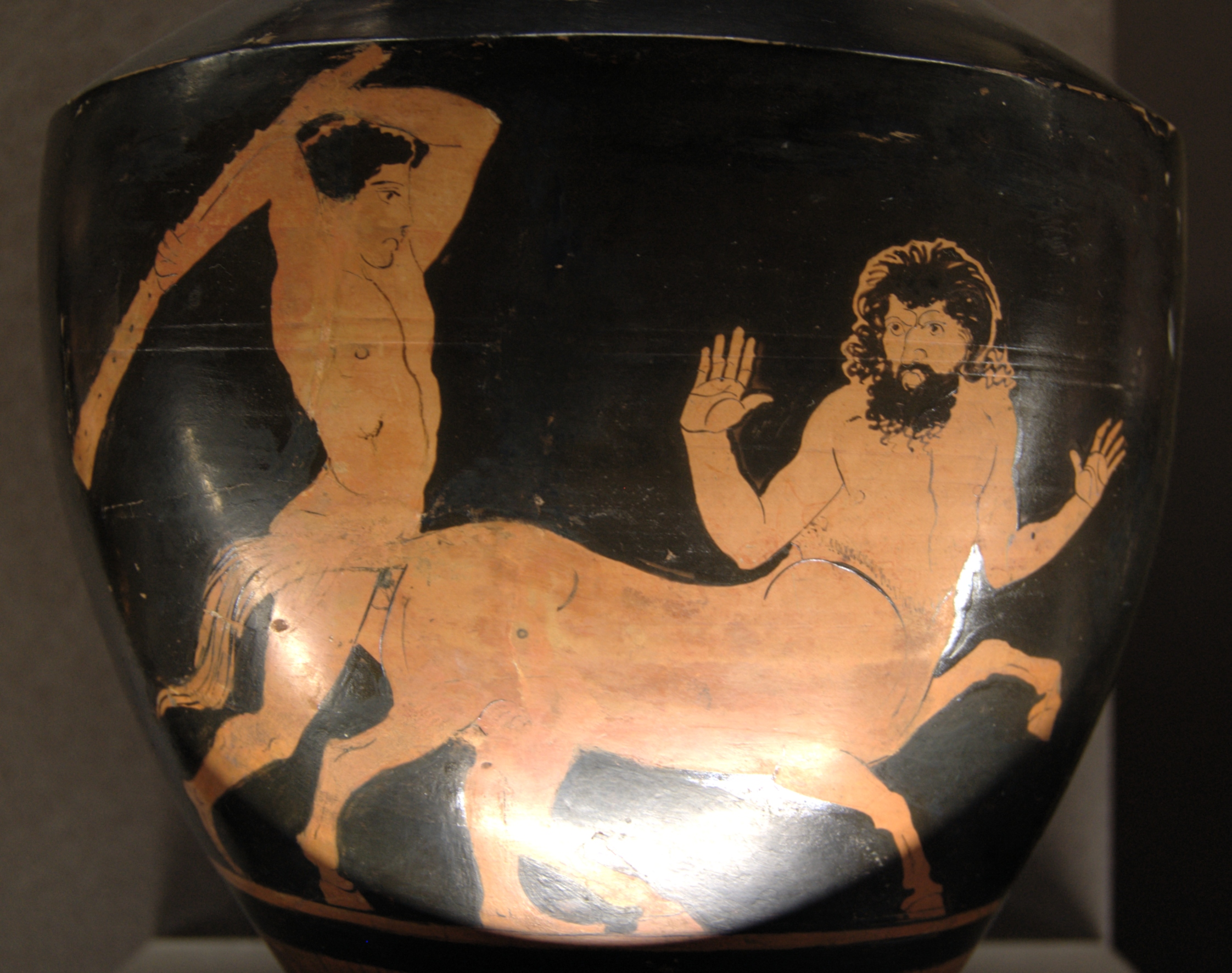 Herakles and the centaur Nessus (?). Side A of an Apulian red-figure olpe, ca. 420 BC. From Italy